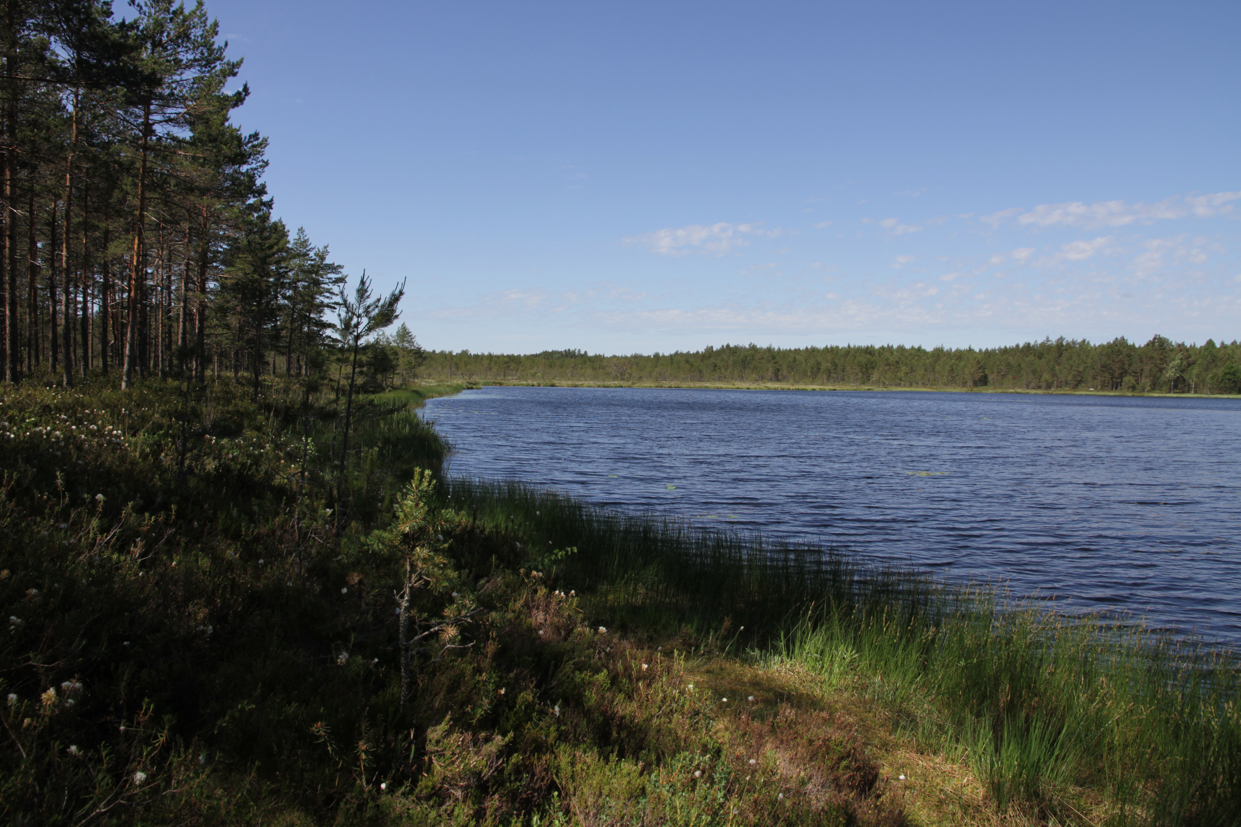 Hirvijärvi is a small lake at Mynämäki, Finland.